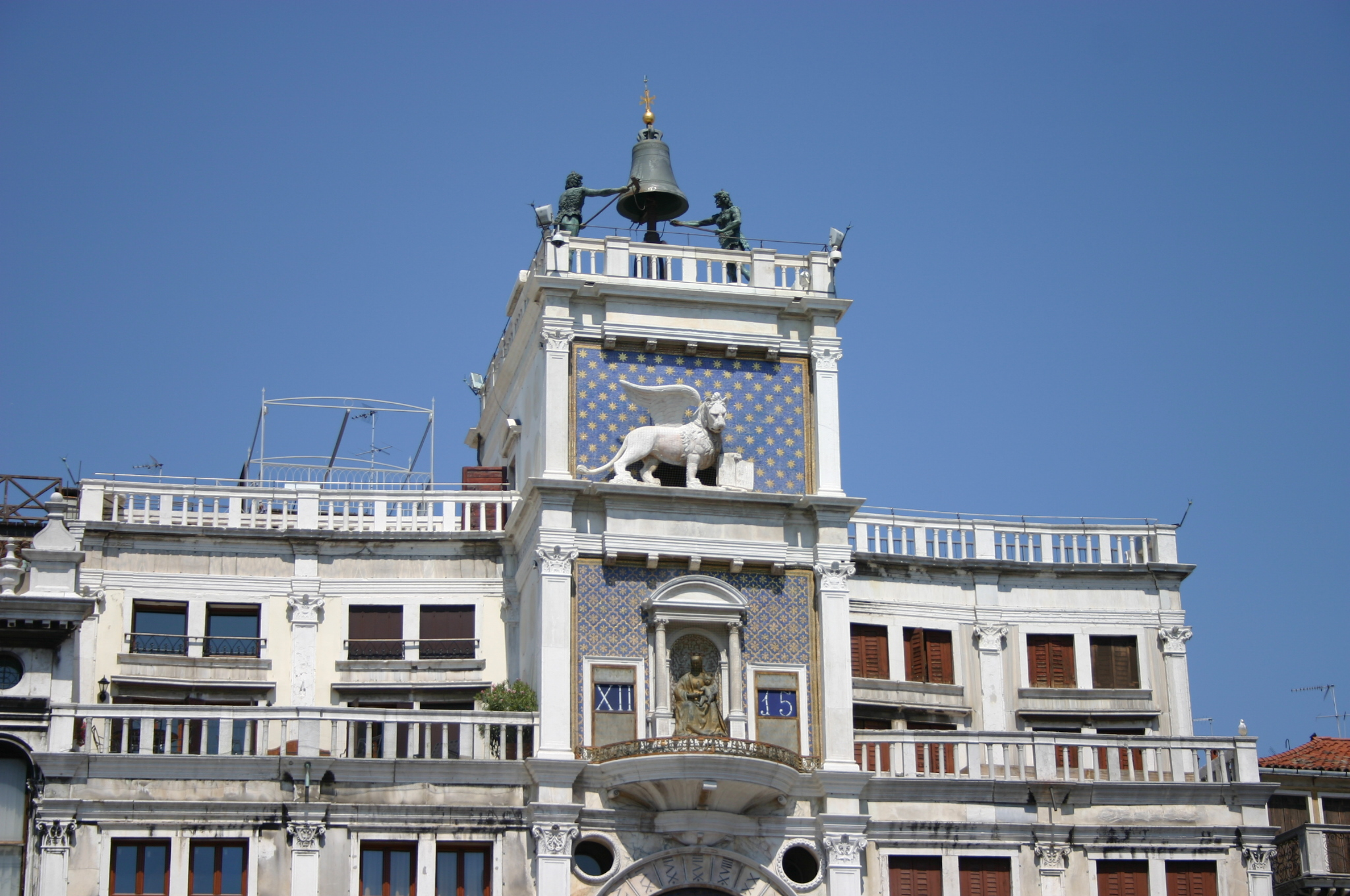 Piazza San Marco square in Venice: the clock tower, built in 1499. Picture by Giovanni Dall'Orto, August 6, 2007.